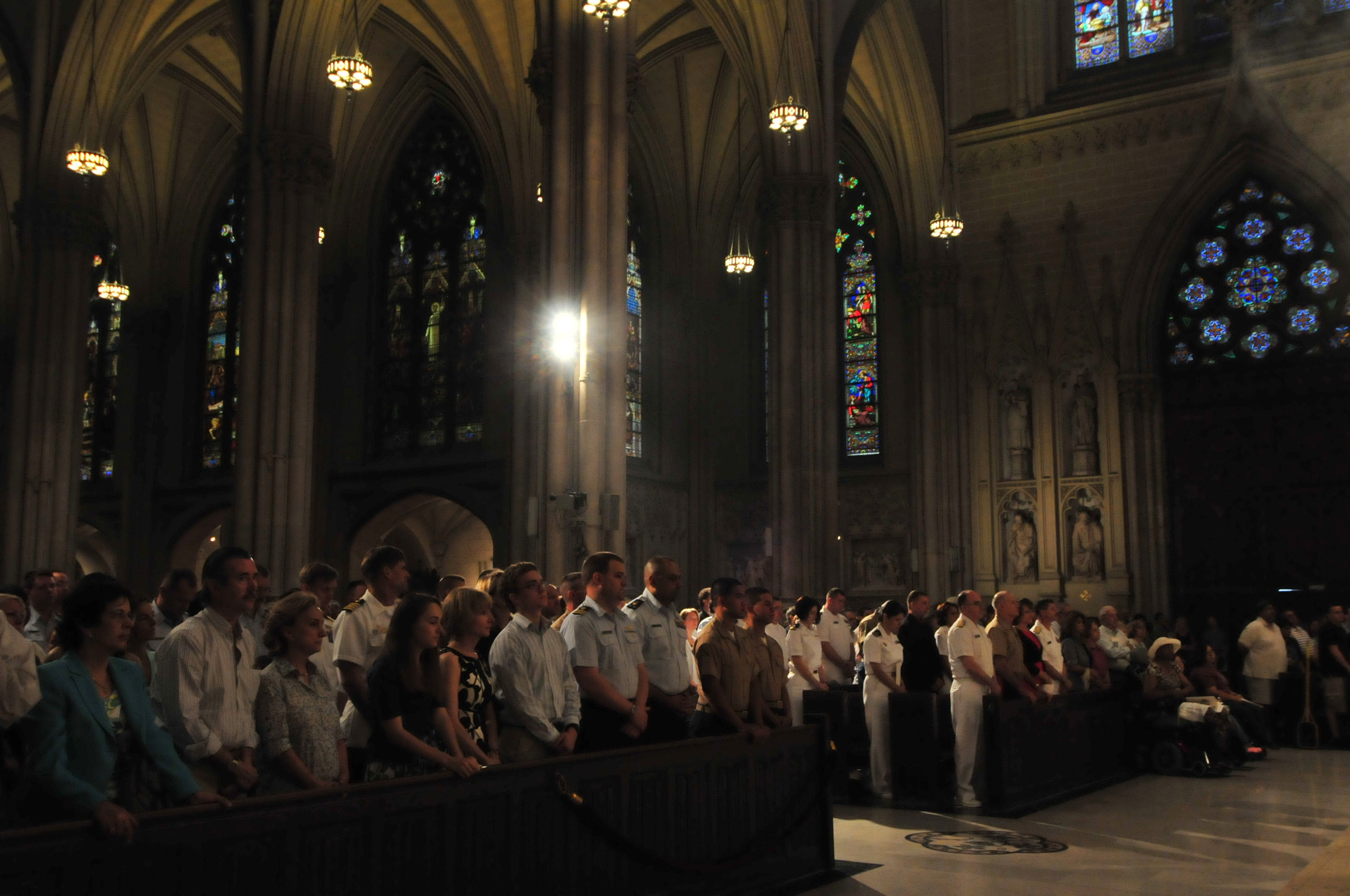 NEW YORK (May 30, 2010) Sailors, Marines and Coast Guardsmen participate in a Catholic Mass at St. Patrick's Cathedral during Fleet Week New York. Approximately 3,000 Sailors, Marines and Coast Guardsmen are participating in the 23rd Fleet Week New York, which is taking place through June 2. Fleet Week has been New York City's celebration of the sea services since 1984. (U.S. Navy photo by Mass Communication Specialist 1st Class Monique K. Hilley/Released)